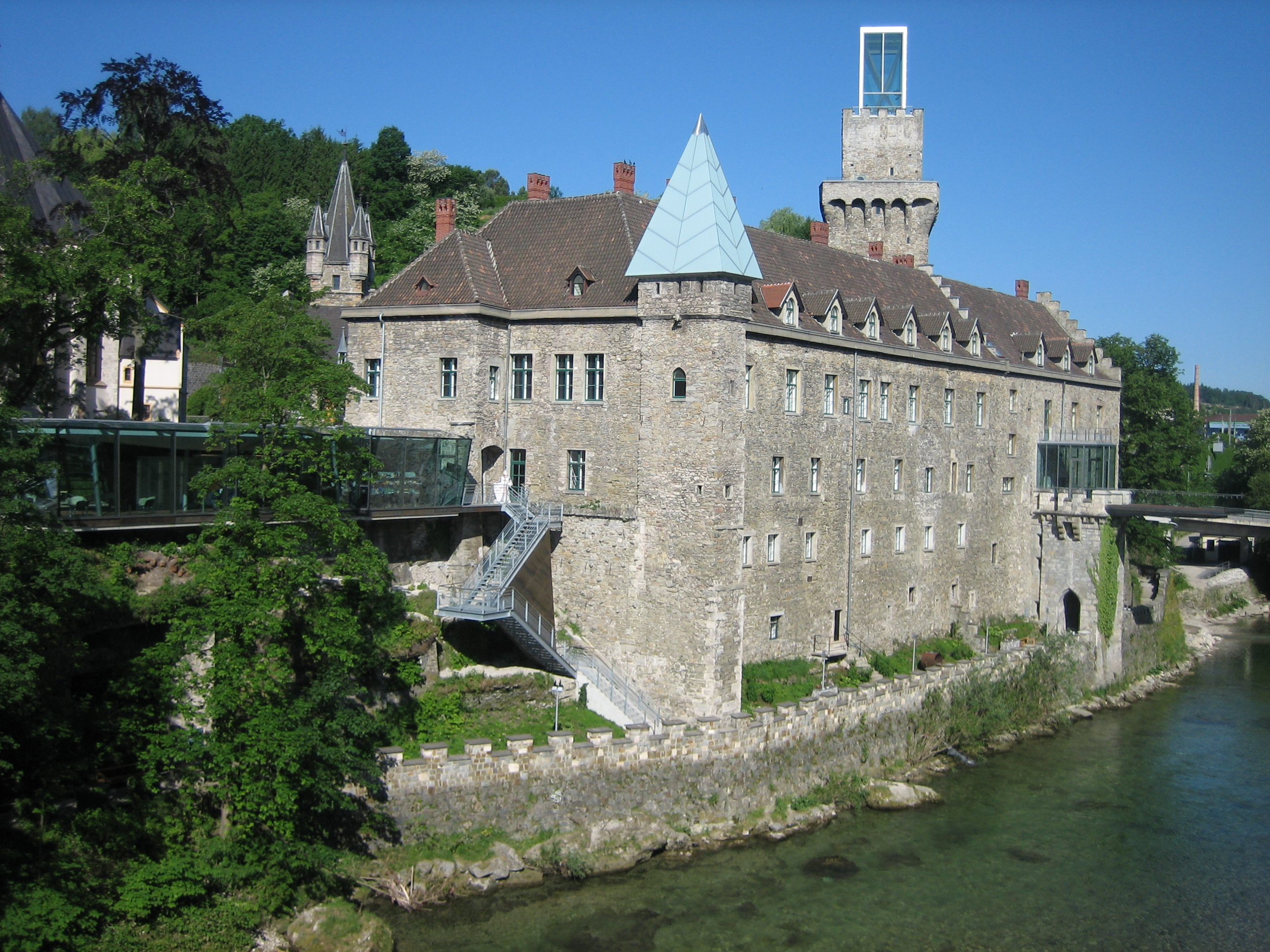 Rothschild-Castle, Waidhofen an der Ybbs, Lower Austria, Austria: Former medieval residential building, built approximately between 1365 and 1410. Metal-glass-constructions (designed by Hans Hollein) added on 2006 - 2007.